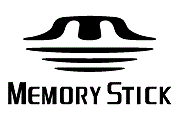 logo of the Memory Stick